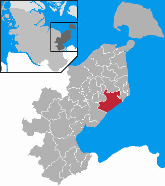 This map shows the area of the Gemeinde (municipality) Grömitz in the Kreis (district) Ostholstein, Schleswig-Holstein, Germany.